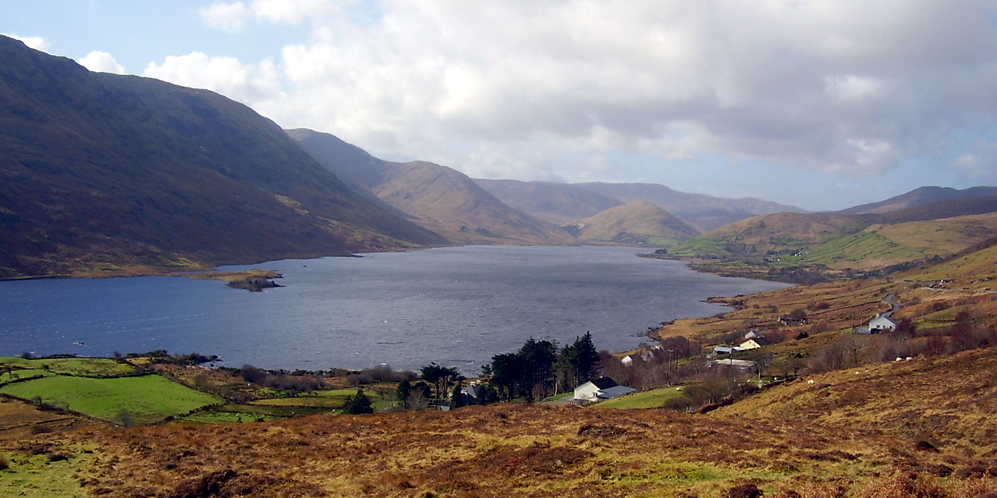 View of Loch Na Fooey from the R300 road to Tourmakeady